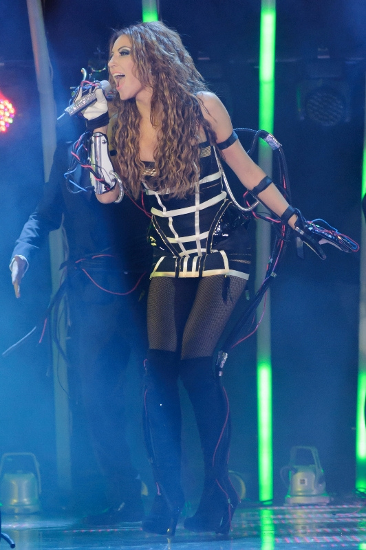 Alina Artts live in Milk Club, Moscow (15.03.2012)